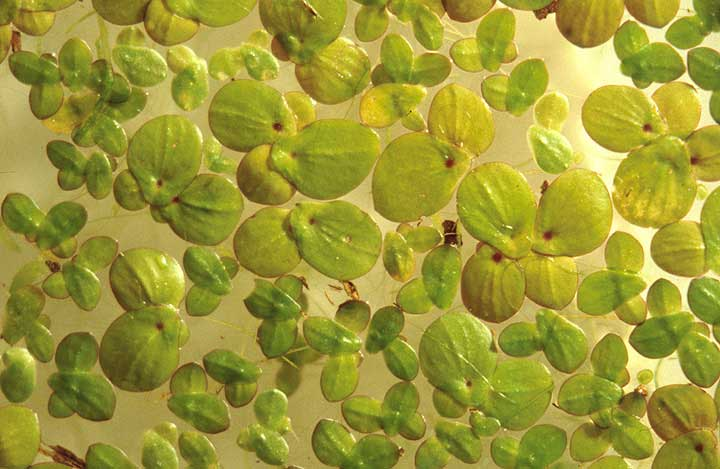 Side by side, these two species are easier to distinguish than when apart. Spirodela polyrrhiza is the largest duckweed and has more roots than others in North America. Landoltia punctata usually has several roots, generally fewer than S. polyrrhiza, but, always more than Lemna species, which only have one. Both Spirodela and Landoltia have reddish purple coloration on the undersurface of the fronds, a result of anthocyanin production, which varies with environmental conditions. The undersurface of Landoltia punctata is covered with many sunken glands, reason for the epithet "punctata", that are seen as a heavier texture overall. Spirodela polyrrhiza, ranges widely in its native North America, extending to all U.S. states and far north of the Canadian border (Landolt 1981). While the introduced Landoltia punctata appears more restricted to the Southeast, it might be expected in all regions with mild winters.